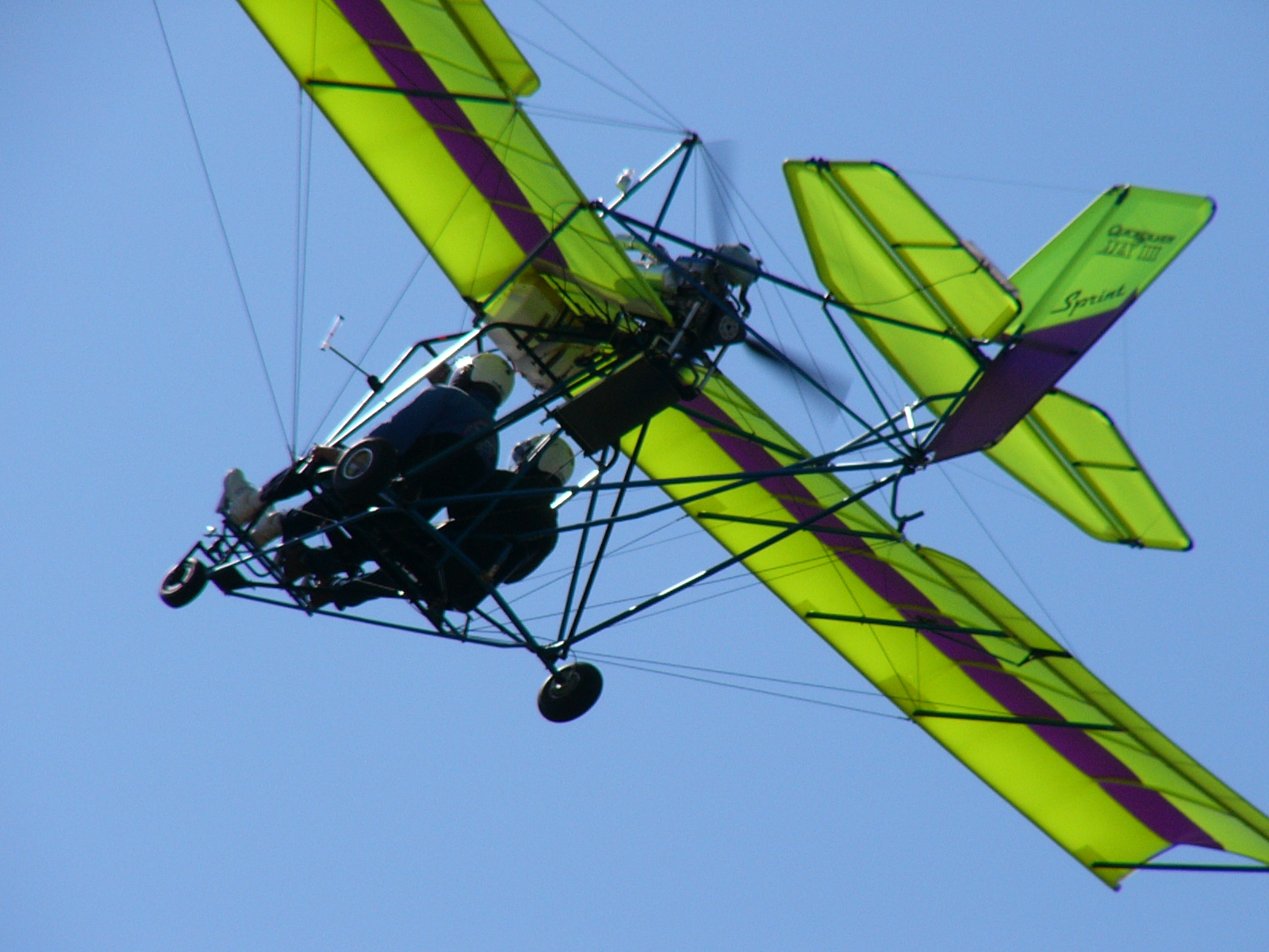 A Quicksilver MX II Sprint two-seat ultralight trainer at Sun 'n Fun 2004